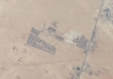 Satellite imagery of Doha and Al Wakrah taken in 2009 by NASA.